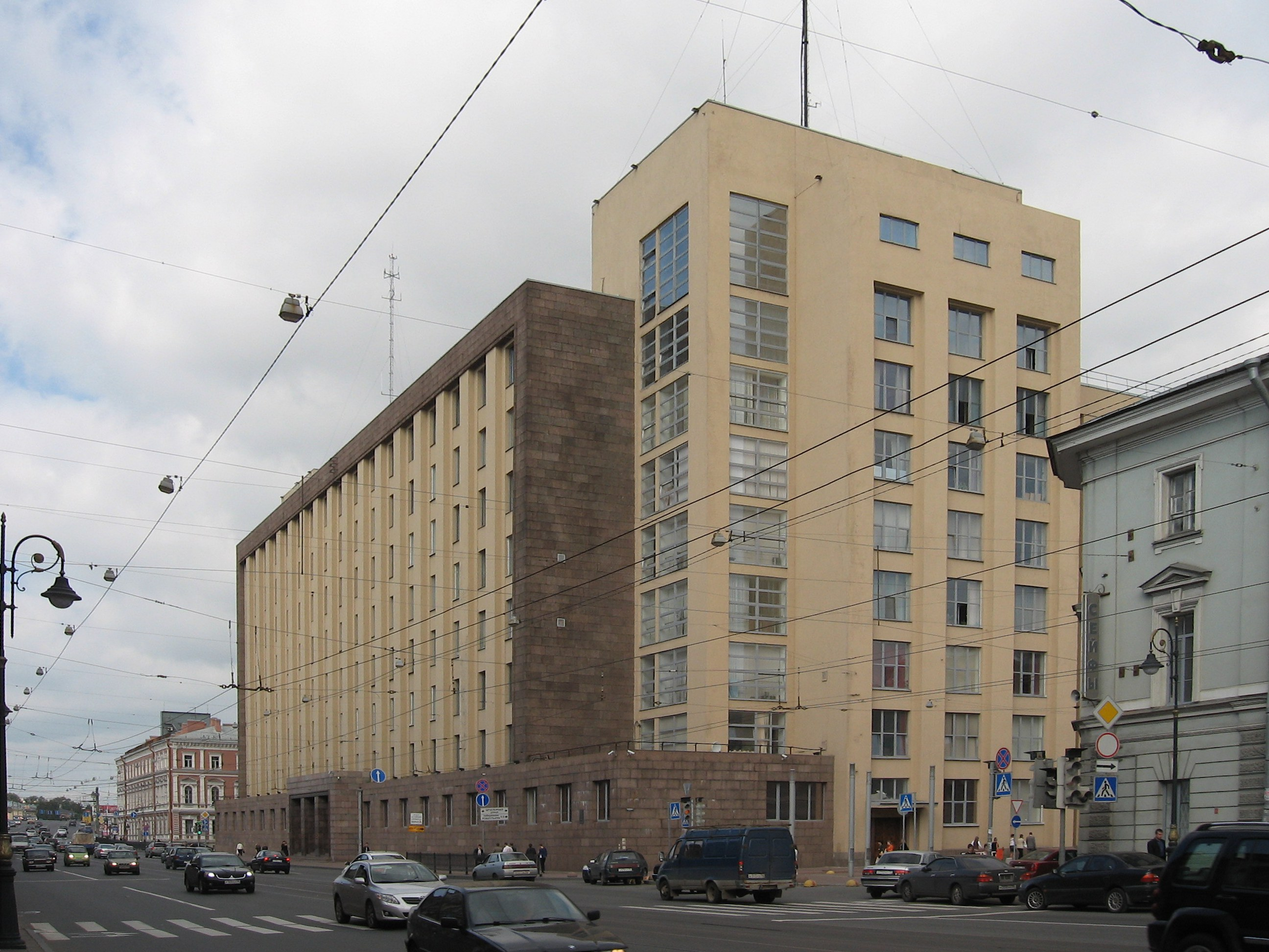 Big House on Liteyny prospect in Saint Petersburg (Russia)